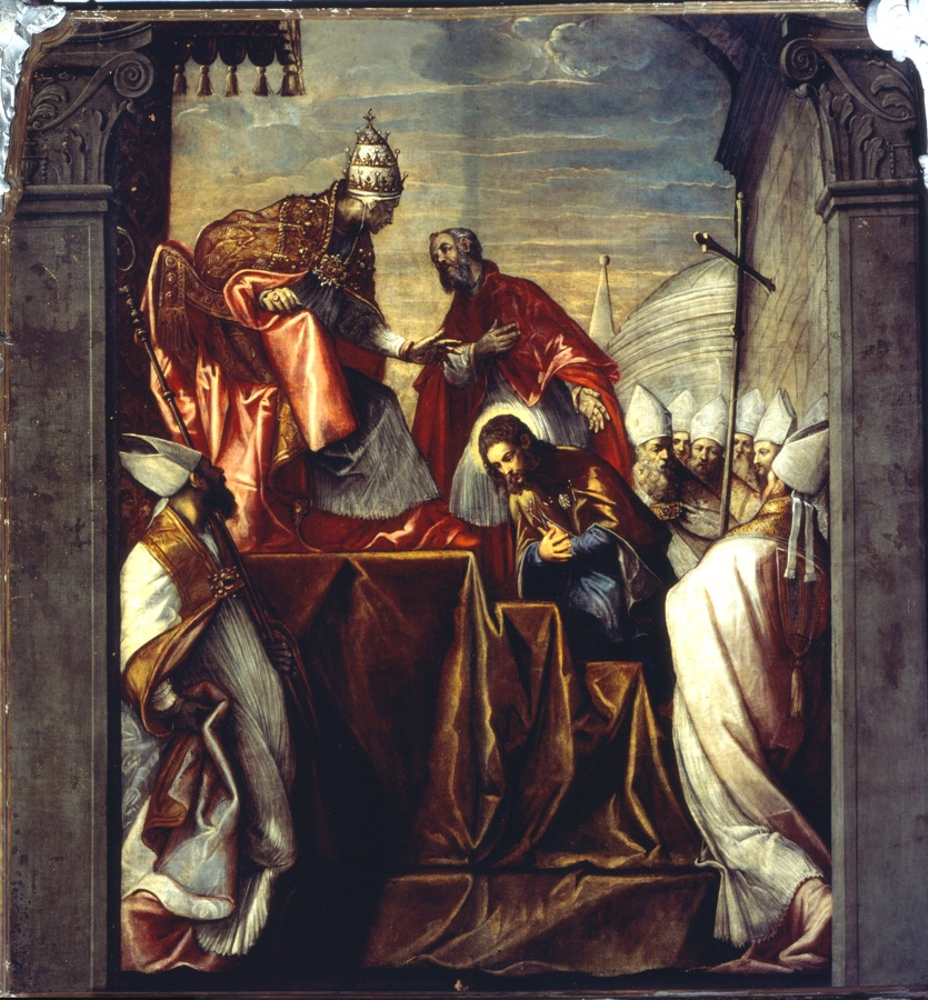 San Rocco presentato al Papa